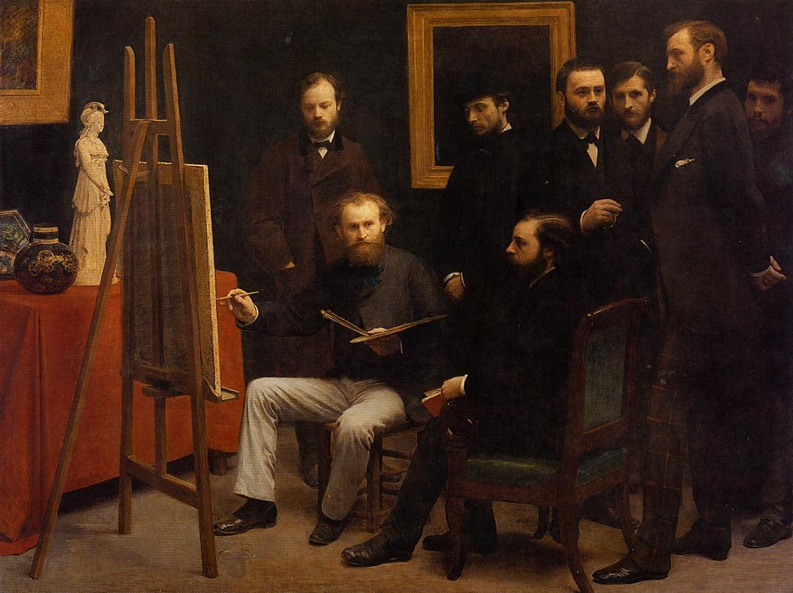 Henri Fantin-Latour's art